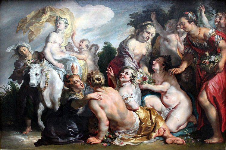 1615 version of Rape of Eurpoa